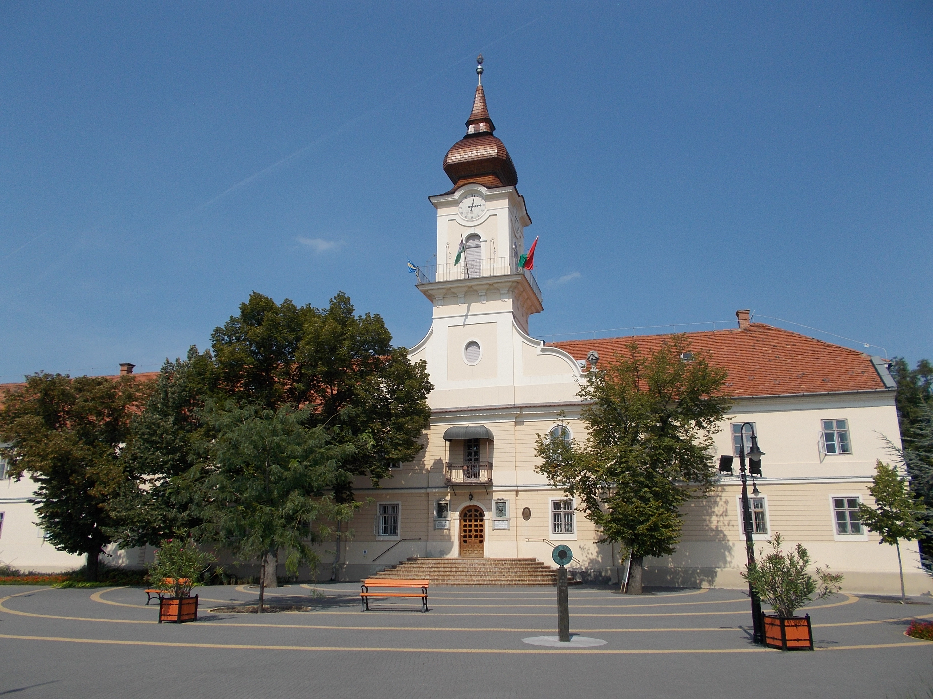 Town Hall. Listed monument ID 7176. Baroque. Built in 1705, rebuilt in 1738. Extended in 1847 and in 1887. - Szabadság Square, Nagykőrös, Pest County, Hungary